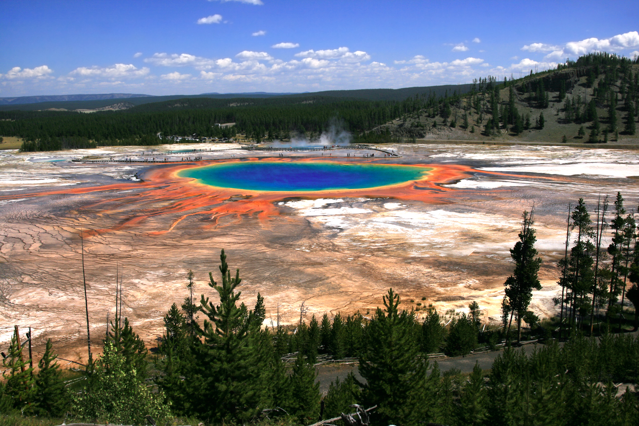 Grand Prismatic Spring and Midway Geyser Basin in Yellowstone National Park